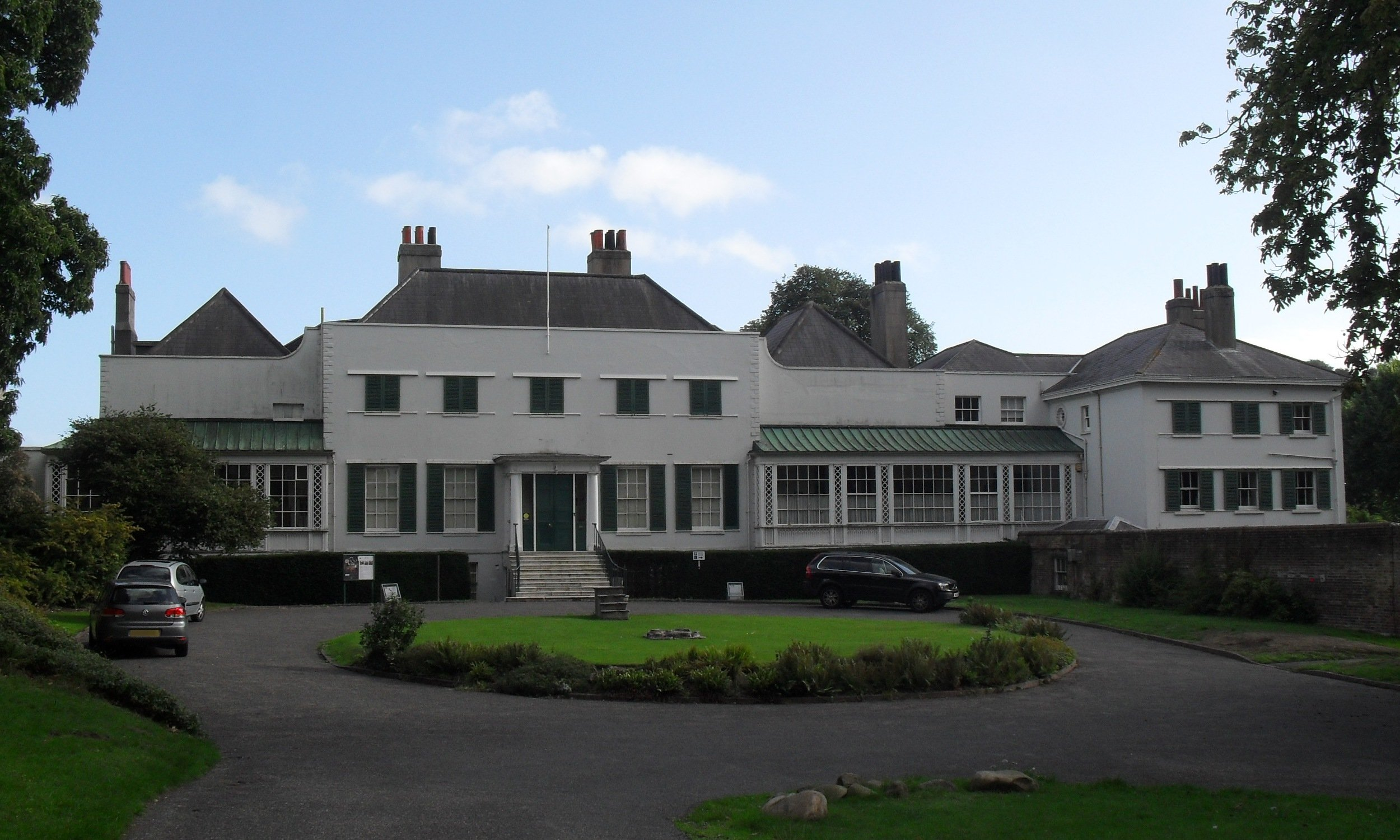 Preston Manor, Preston Drove, Preston Village, City of Brighton and Hove, East Sussex. The original manor house of Preston, dating from about 1250 but completely rebuilt by the Lord of the Manor in 1738 and remodelled further in 1905. It is now owned by Brighton & Hove City Council. Listed at Grade II* by English Heritage (IoE Code 481074)